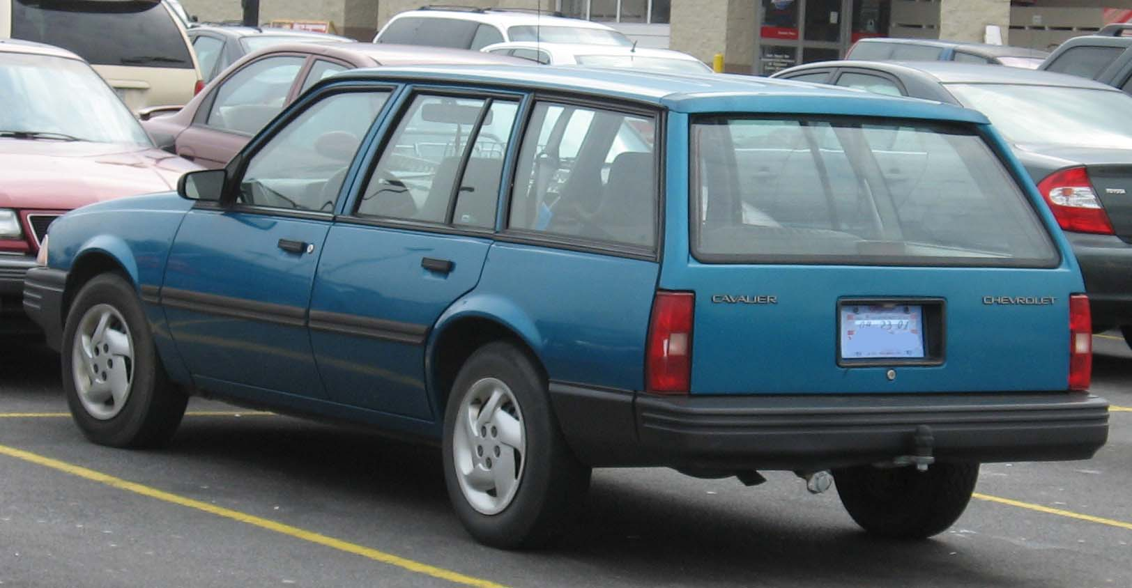 1991-1994 Chevrolet Cavalier wagon photographed in USA.